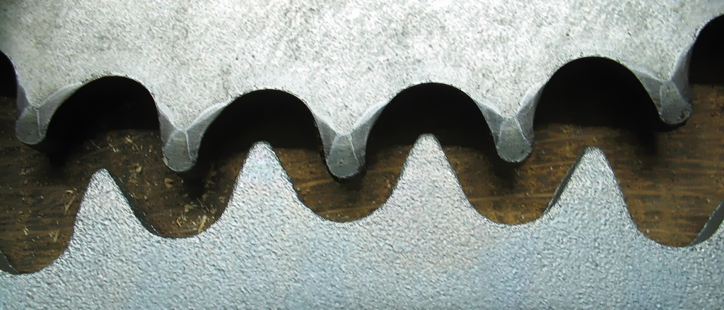 Visual comparison between two sprocket, in which a consumed by wear, while the other is new.